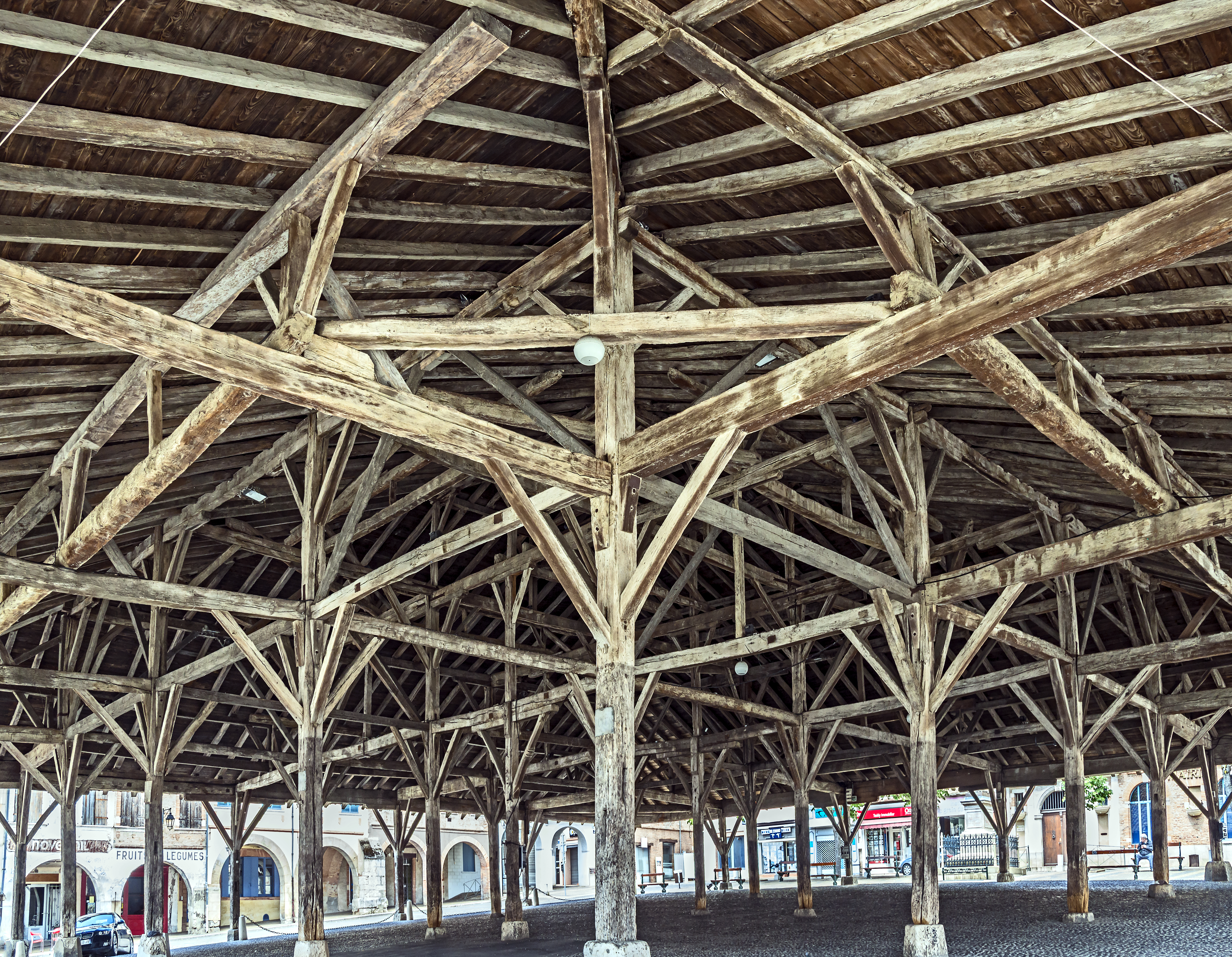 The hall of Beaumont-de-Lomagne of the fourteenth century. View of the interior of the hall.